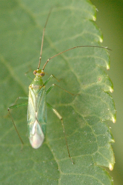 Picture taken in Commanster, Belgian High Ardennes . Species: Dicyphus pallidus